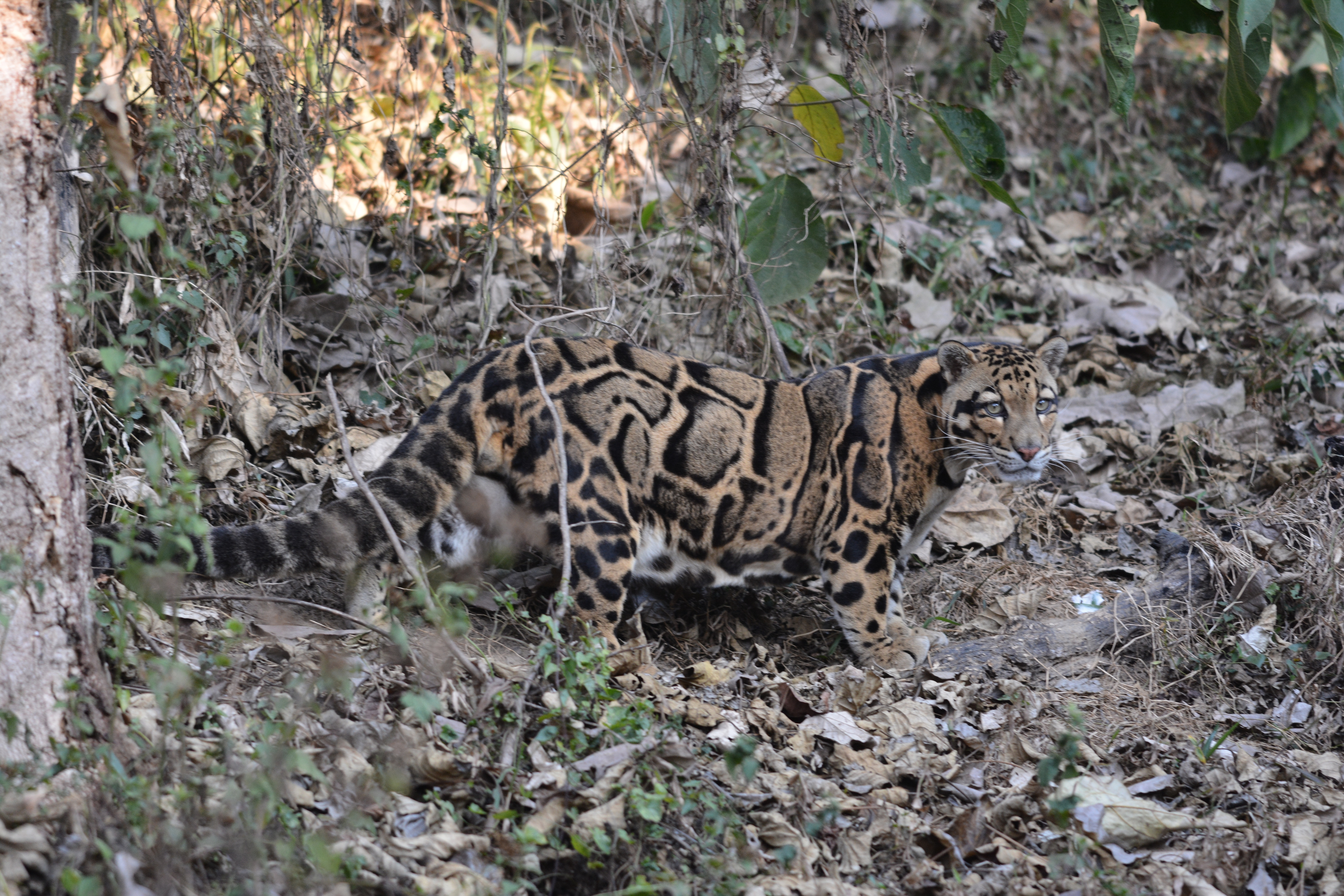 Clouded Leopard Neofelis nebulosa. Photo taken in Aizawl Zoological Park, Aizawl, Mizoram.